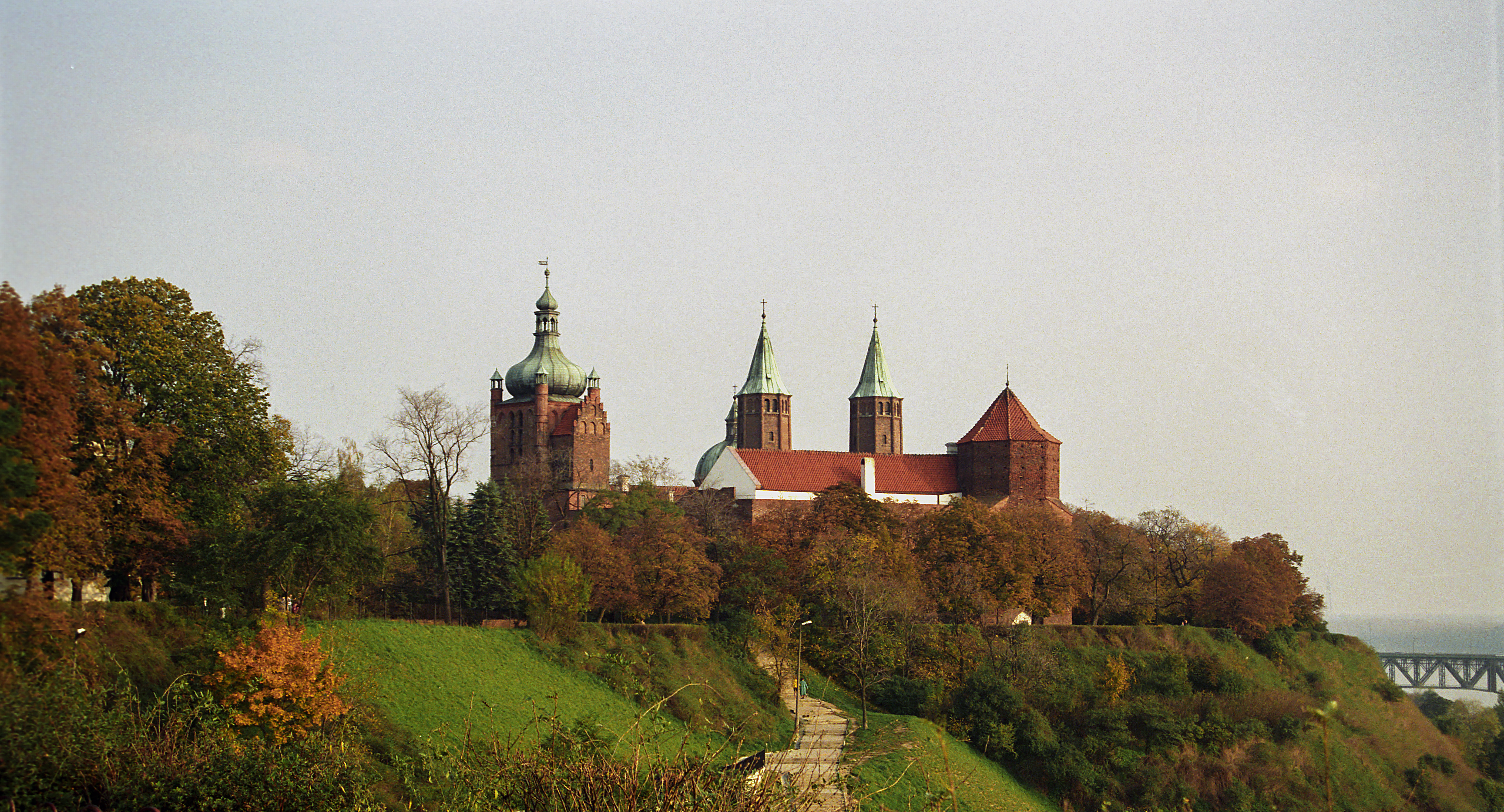 Poland, Plock Castle